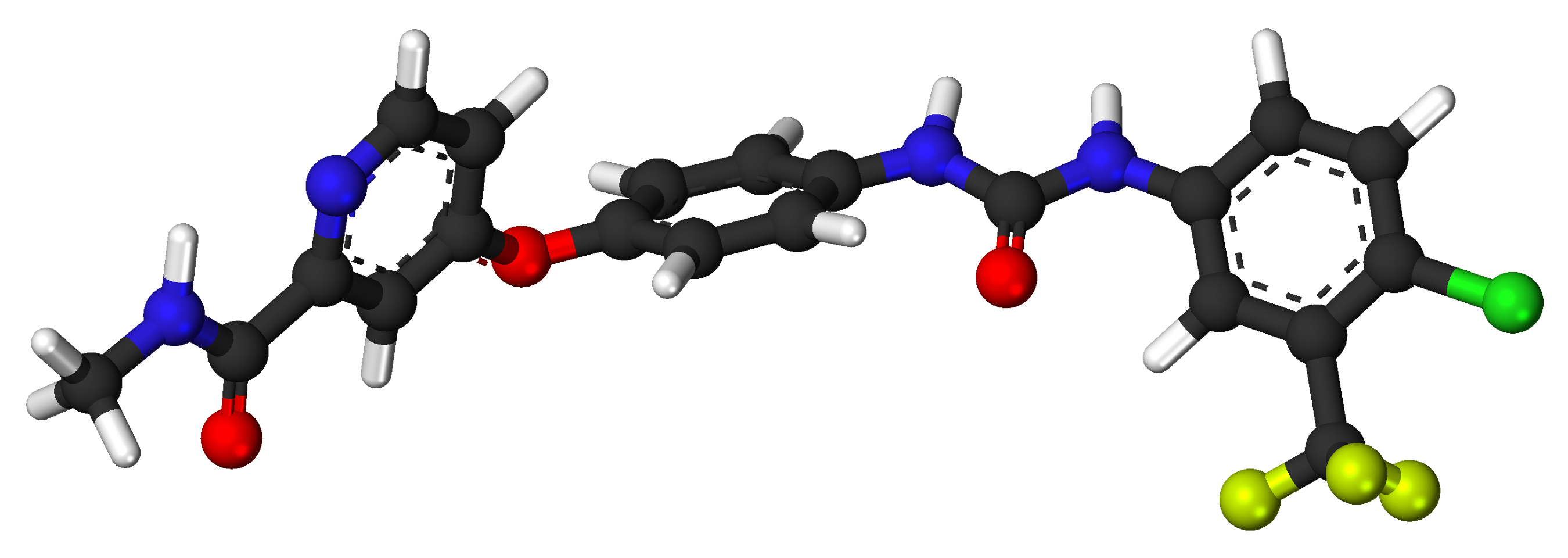 Ball-and-stick model of sorafenib. Created using Accelrys DS Visualizer Pro 1.7 and GIMP. Optimized with OptiPNG. This chemical image was created with Discovery Studio Visualizer.